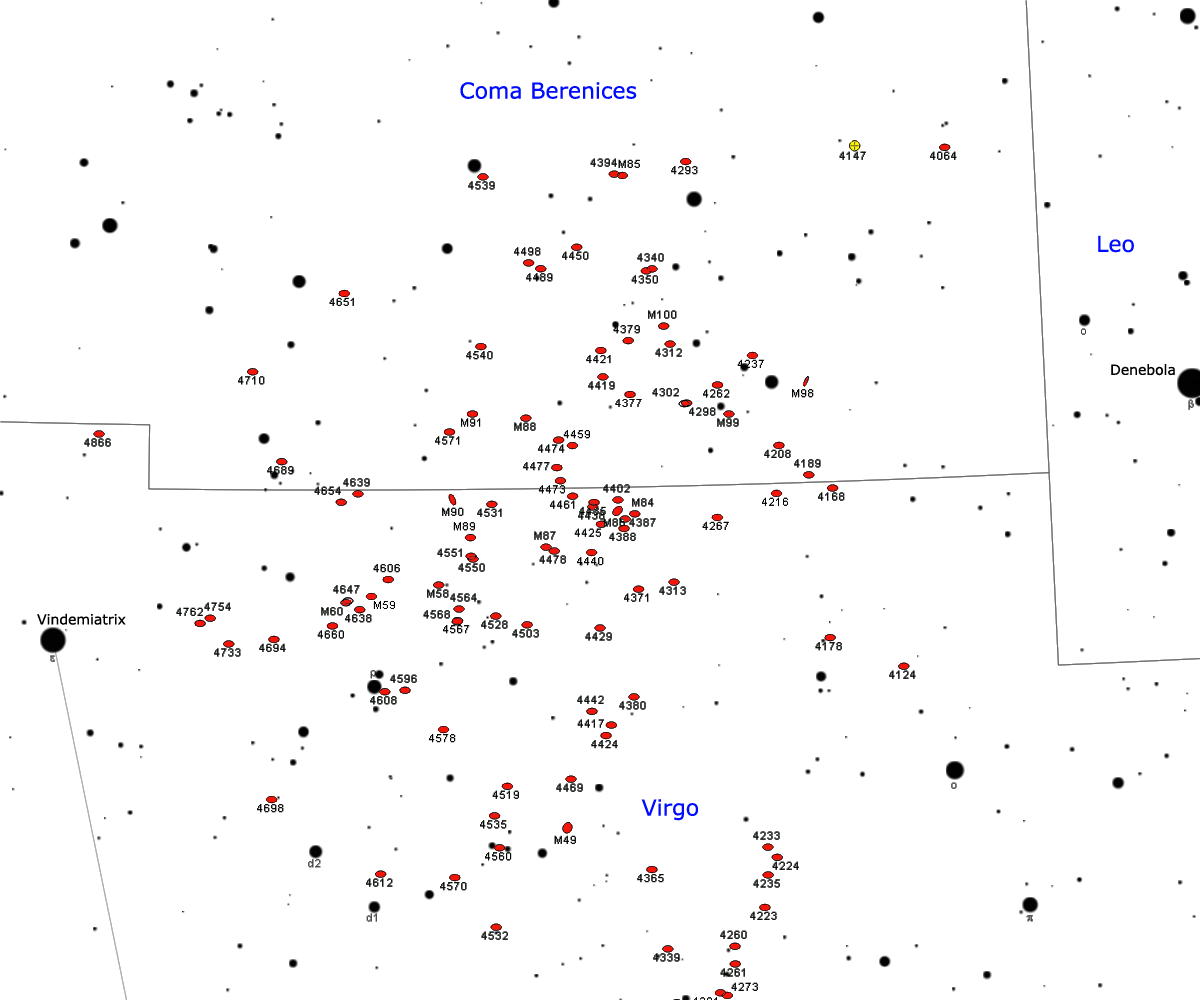 Map of Coma Berenices